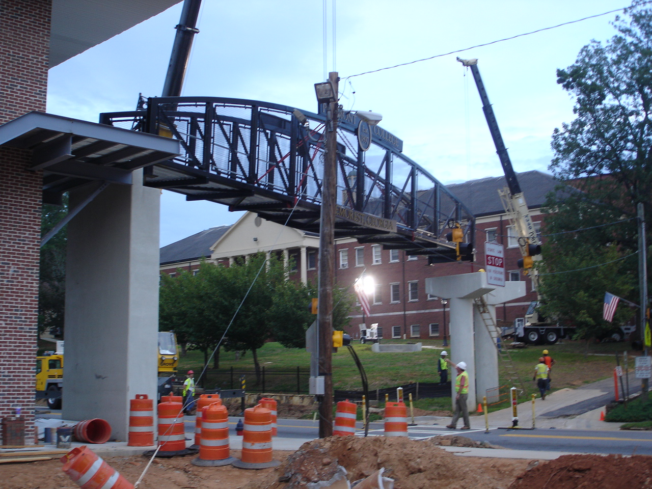 Pedestrian Foot Bridge located in Demorest, Georgia in front of the Piedmont College Campus on Historic US 441 that connects two pieces of Piedmont College.